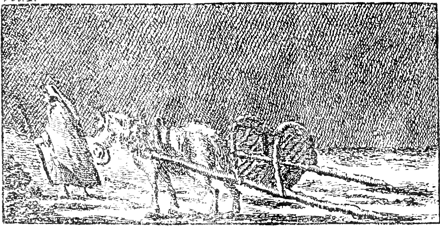 Woman leading a peat "cart" (more of a wheelless horse travois), barefoot, dressed in a blanket and kerch